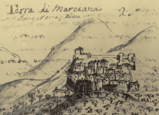 Elba island